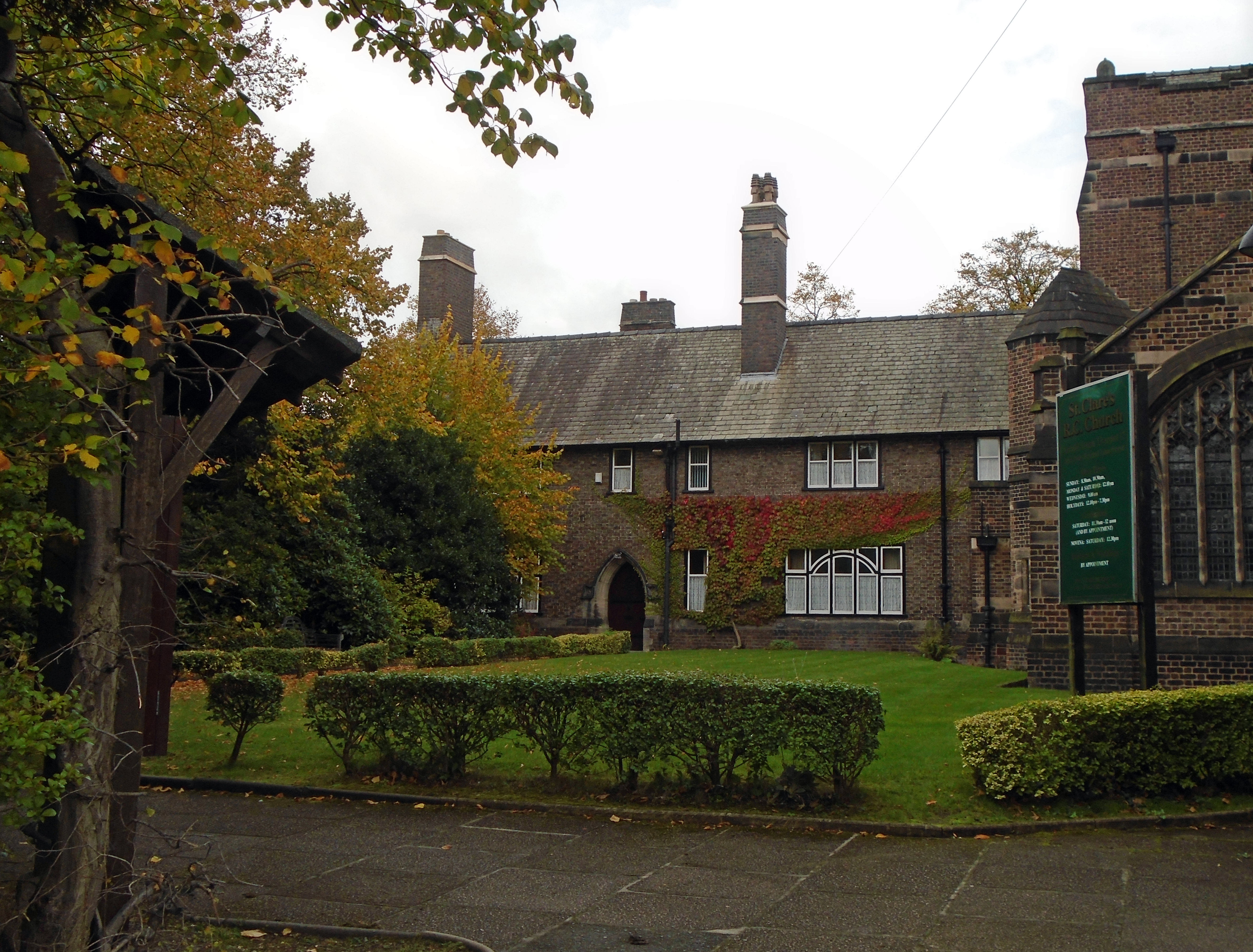 Shown in context of St Clare's church